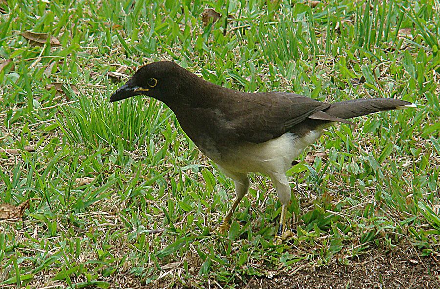 With the yellow eye ring of a juvenile. Also placed in the Cyanocorax genus by some. In context at